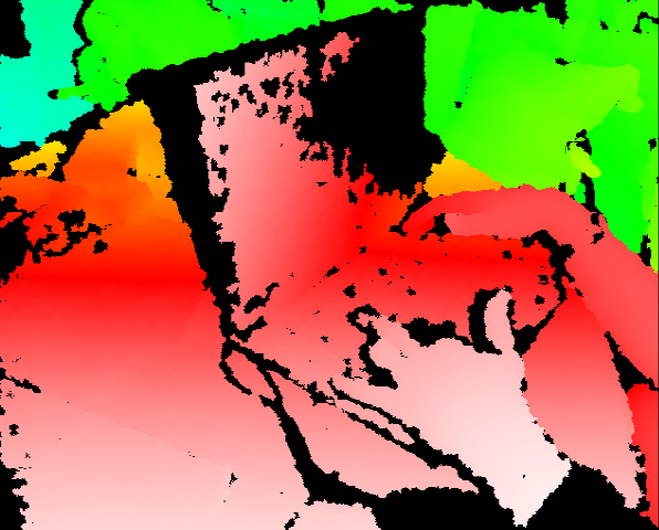 Deep map from Kinect Created with